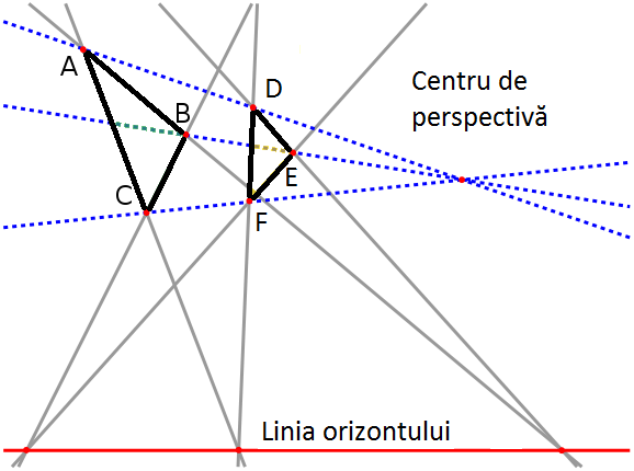 A diagram of Desargues' theorem, created using Adobe Illustrator. Based on File:Desargues theorem.svg, created by User:DynaBlast.